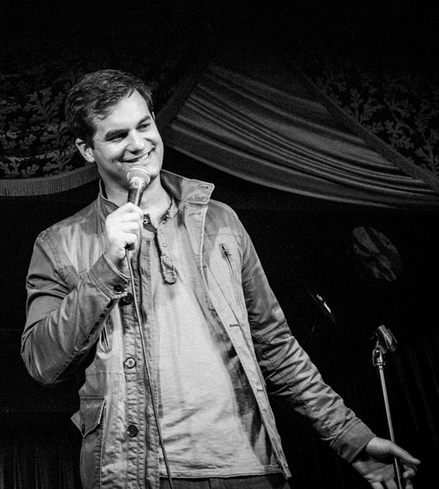 American comedian Michael Kosta at Super Serious Show ( Produced by CleftClips Photography by Mandee Johnson / The Virgil – Los Angeles, CA January 20, 2016